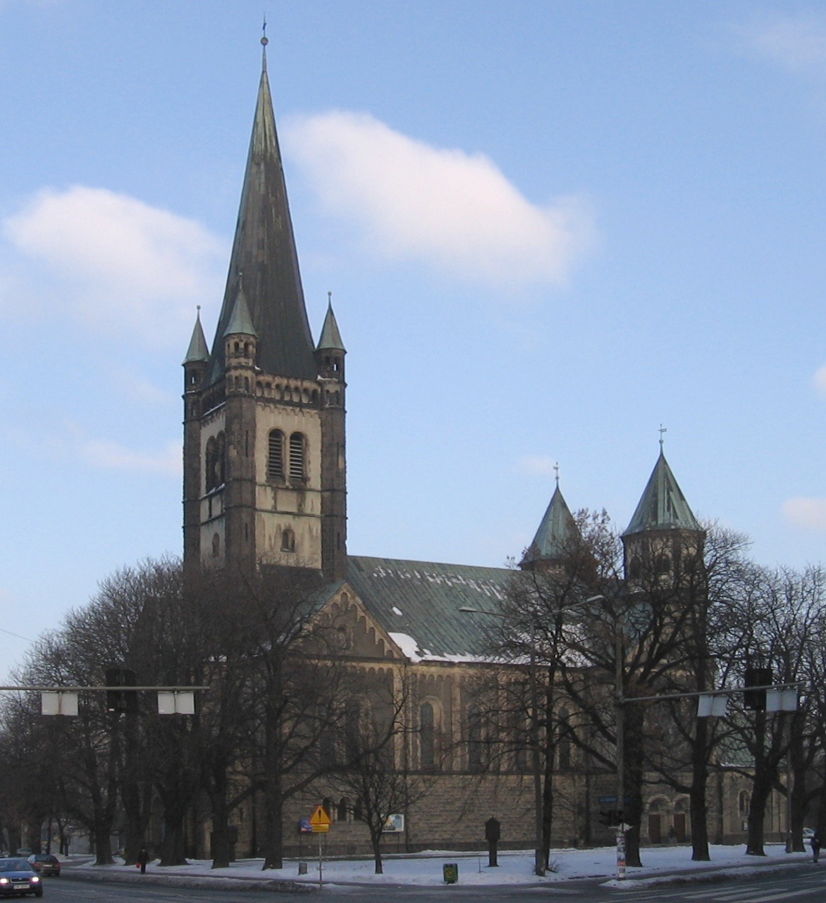 Wrocław, Poland Saint Charles Borromeo church (1913), Gajowicka/Krucza street. View from south-west (opposite corner of Gajowicka and Krucza st.)